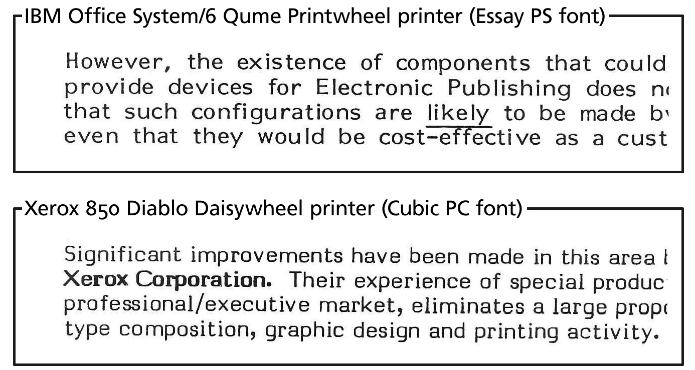 I wrote and set these samples on IBM OS/6 and Xerox 850DTS systems, after which they were printed offset litho. This image is scanned from the printed version, so it will not have the edge fidelity of the original paste-up. Click the thumbnail below to see this sample compared with output from other devices of the time. File:Office Products output samples 1980-81.png.